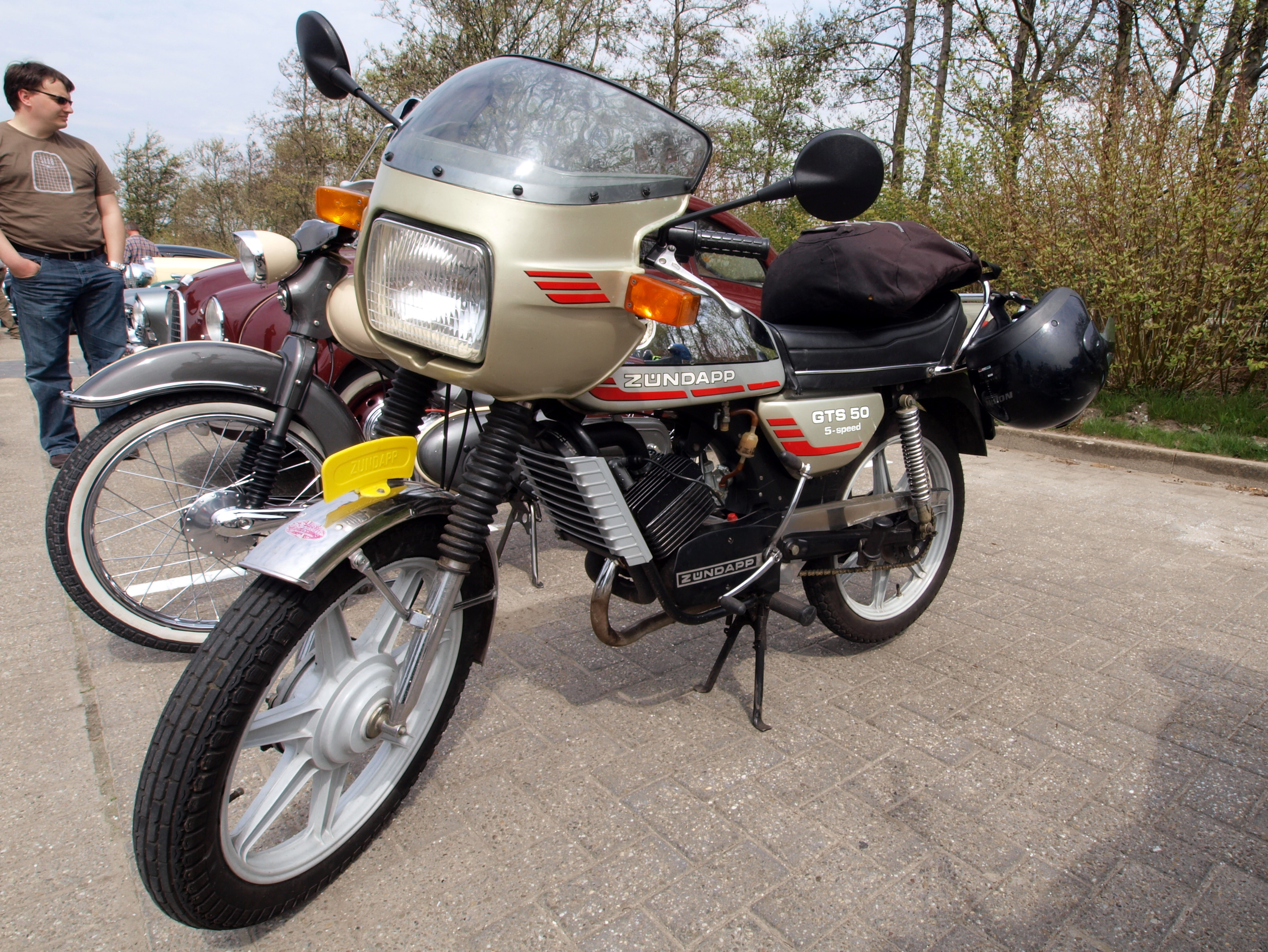 Photographed at Valkenburg, The Netherlands. OLYMPUS DIGITAL CAMERA